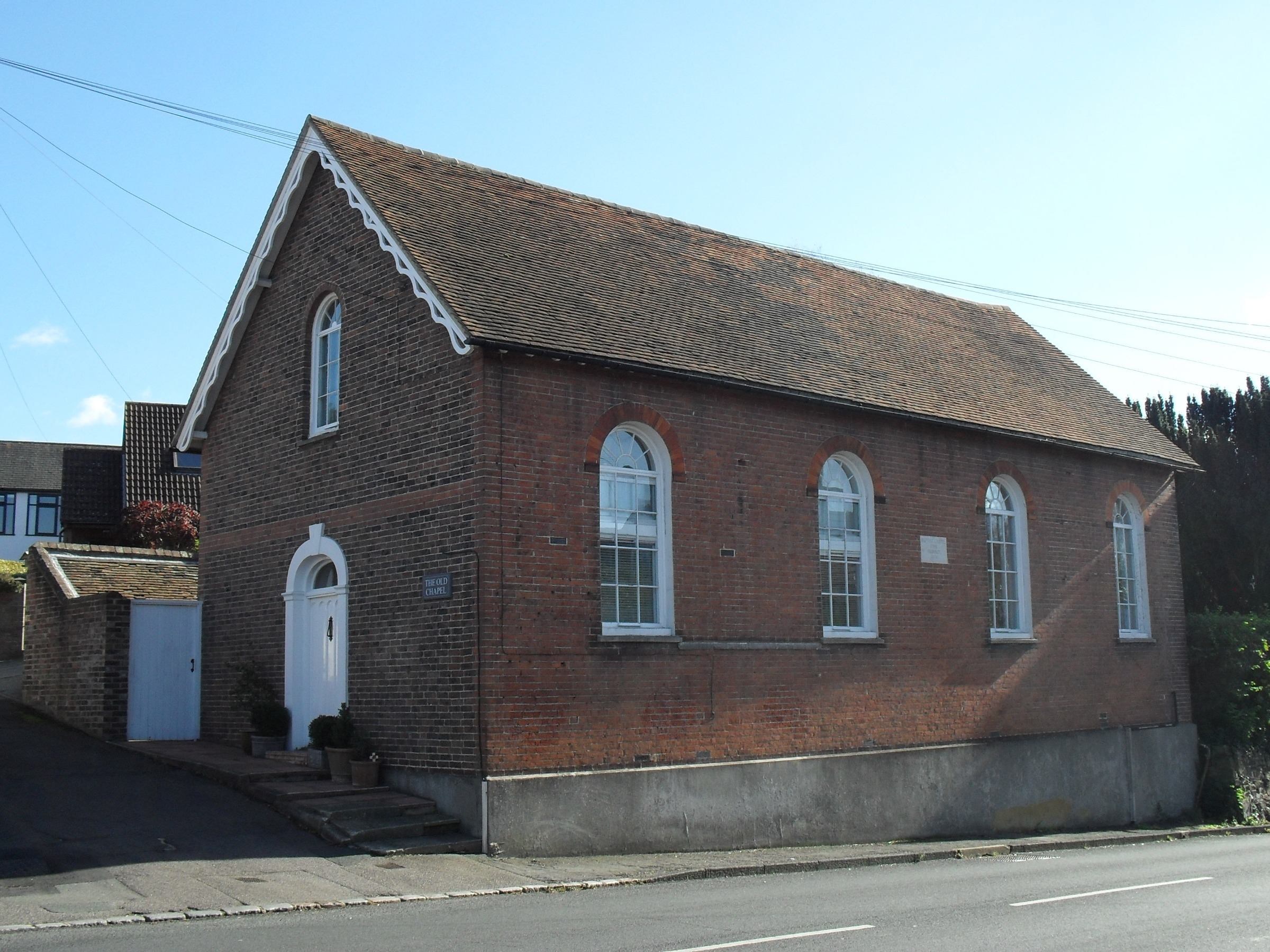 Uckfield Baptist Church, London Road, Uckfield, Wealden, East Sussex, England. Listed at Grade II by English Heritage (IoE Code 269727)